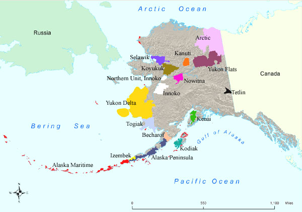 Map of National Wildlife Refuges of Alaska